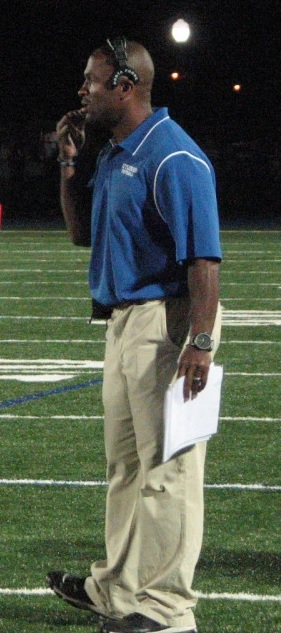 Sammy Morris on the sideline of Tozier-Cassidy Field in Attleboro, Massachusetts as an assistant coach for the Attleboro High School football team against Dartmouth High School on September 20, 2013.